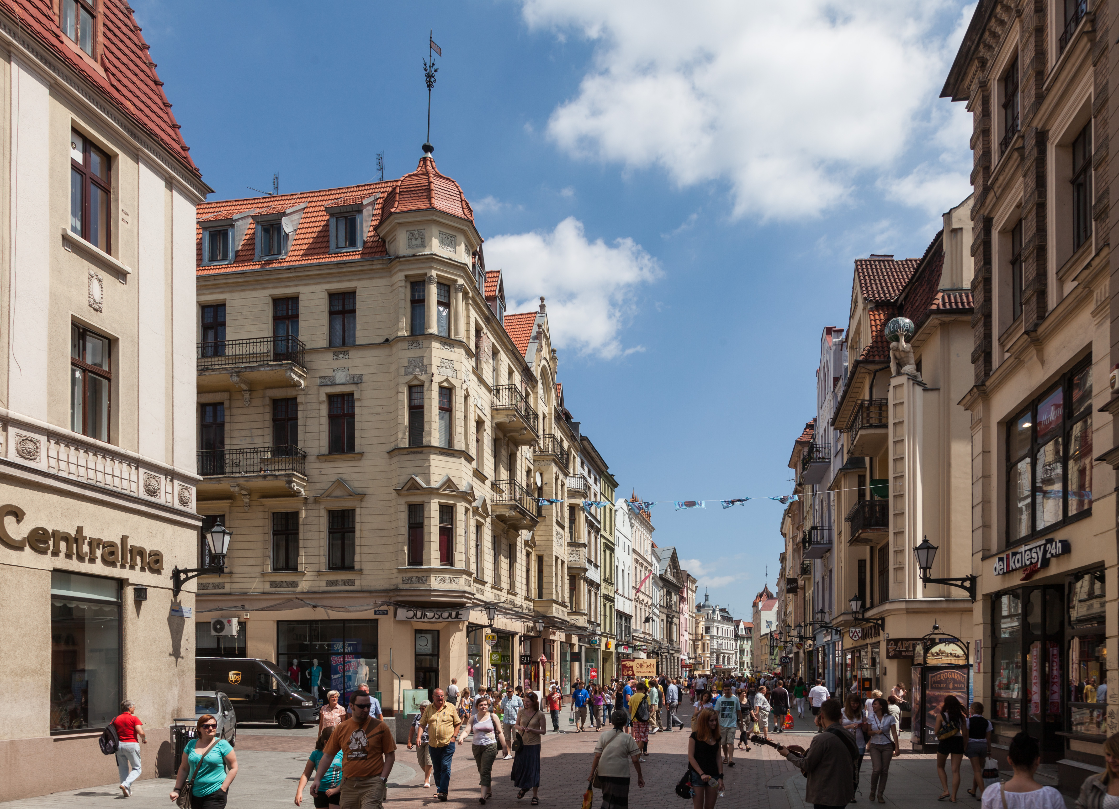 Szeroka Str. in Toruń, Poland.